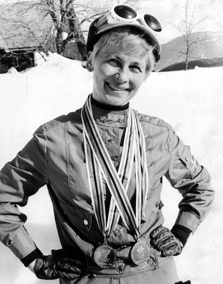 Cross country skier Toini Gustafsson-Rönnlund won two gold medals at the 1968 Winter Olympics.